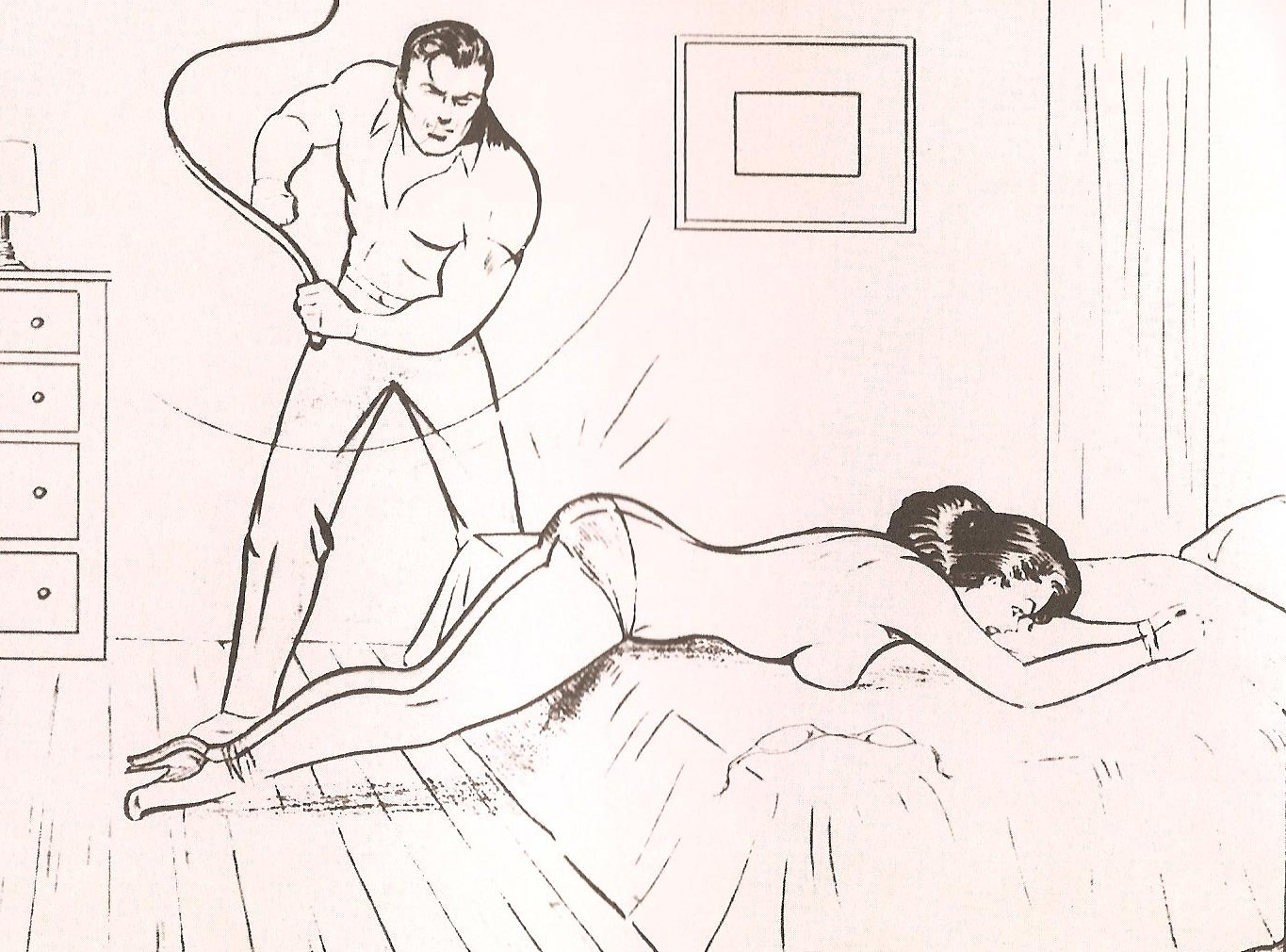 S/M image of lookalike Superman and Lois Lane drawn by the original creator during dispute with employer